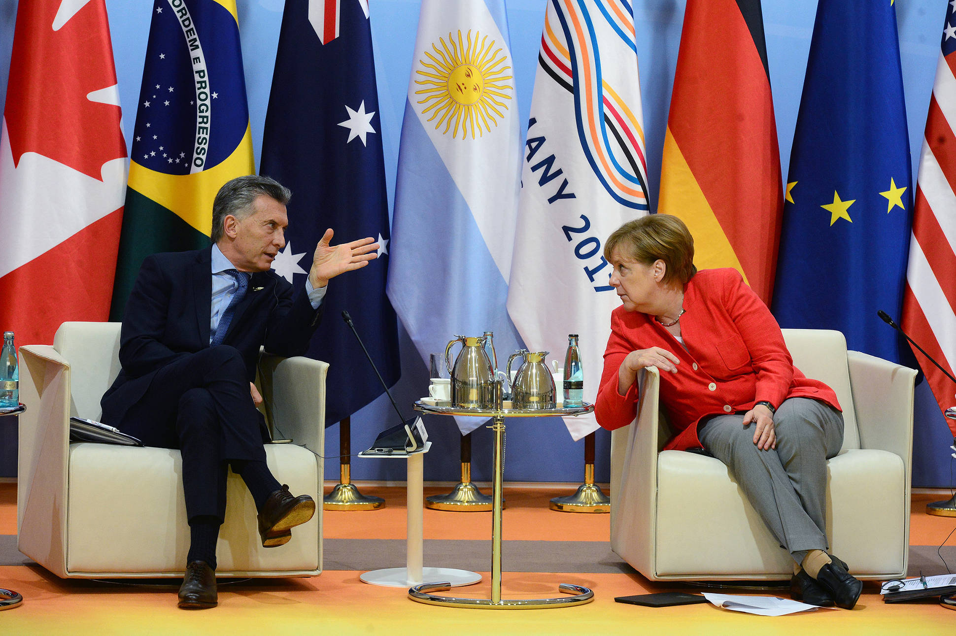 Mauricio Macri alongside Angela Merkel at the G20 2017 summit